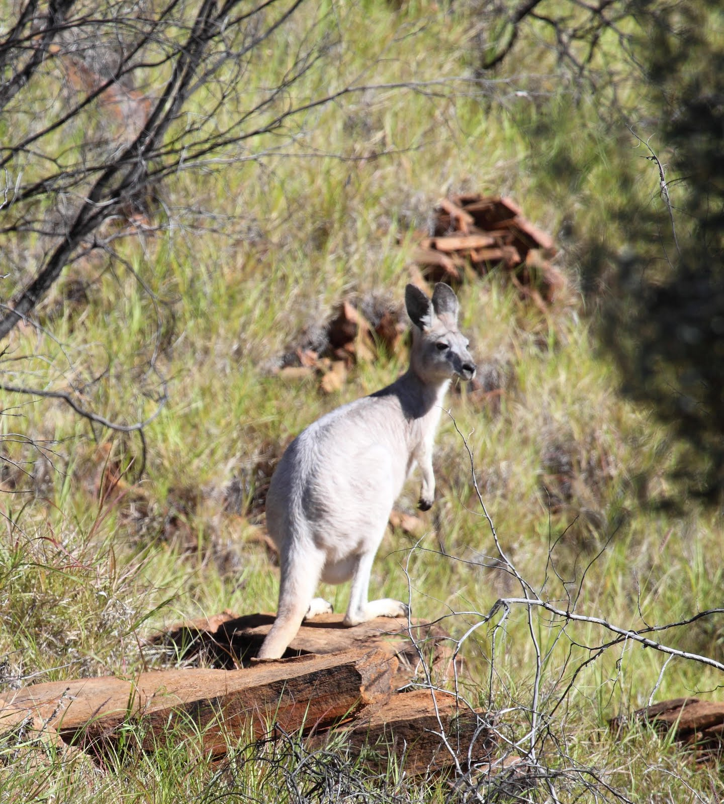 A white common wallaroo (Macropus robustus), Northern Territory, Australia